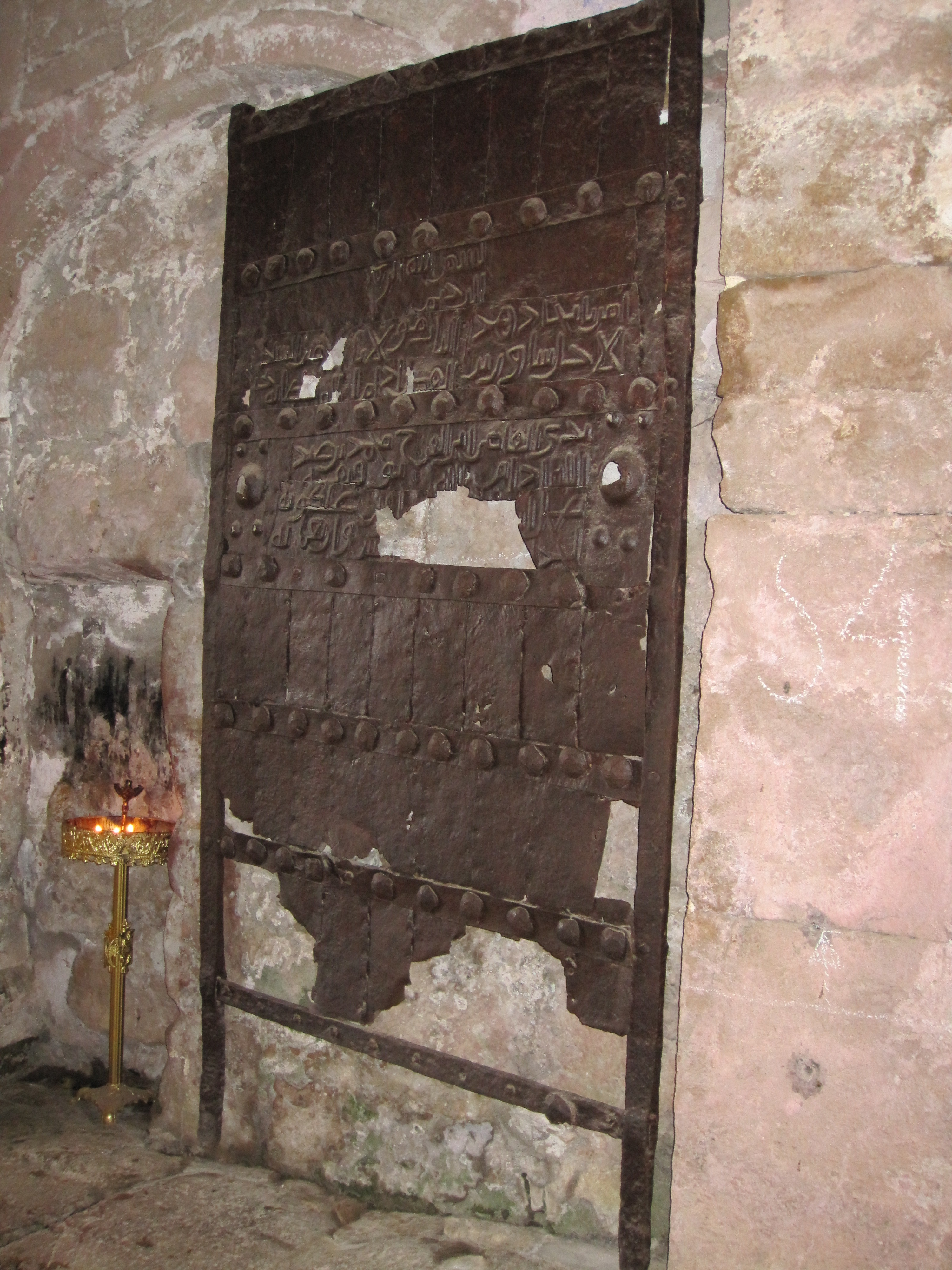 The Gates of Ganja, a 11th-century gates from the city of Ganja brought by the Georgians as a war booty to the Gelati Monastery, where it can still be seen near the tomb of King David IV of Georgia